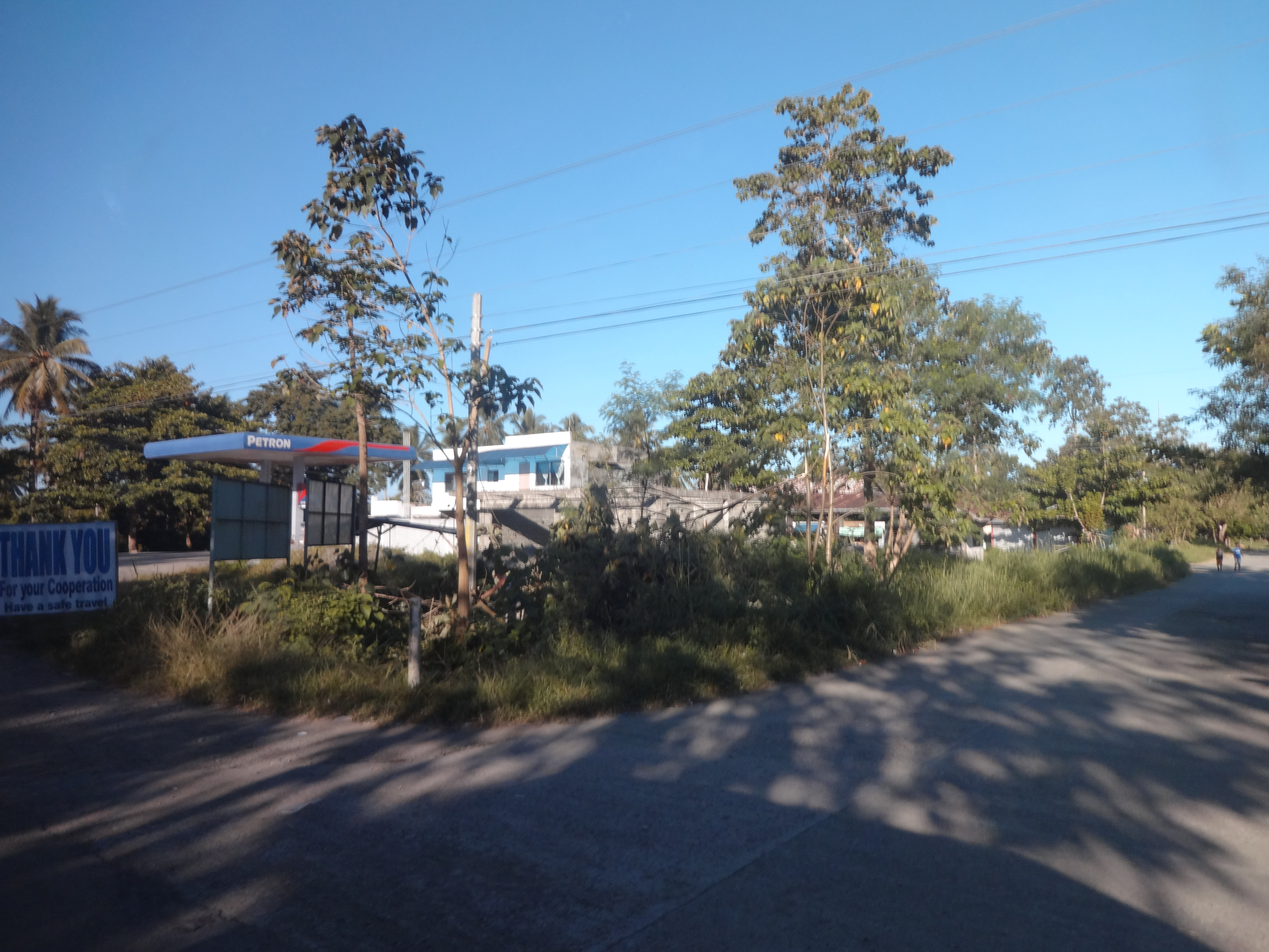 This is my own work. The Municipality of Tubay from AH-26 Highway.